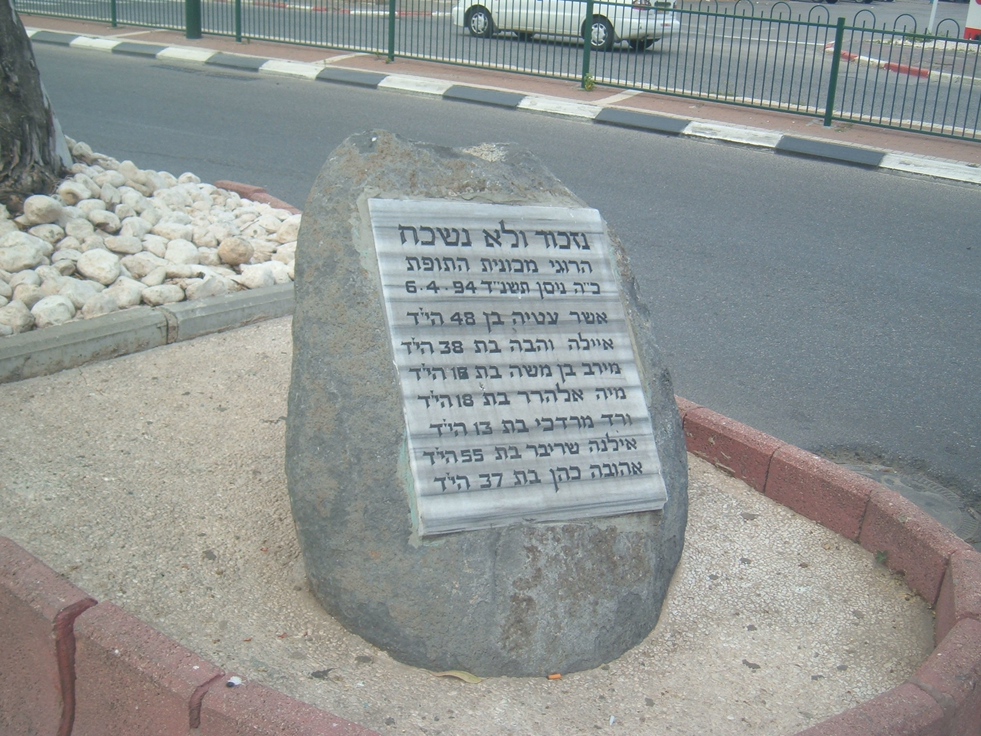 Monument to the victims of a suicide bomber in Afula in April 1994. יד לזכרם של הנספים בפיגוע מכונית התופת בעפולה באפריל 1994, מוצבת בסמוך למקום הפיגוע